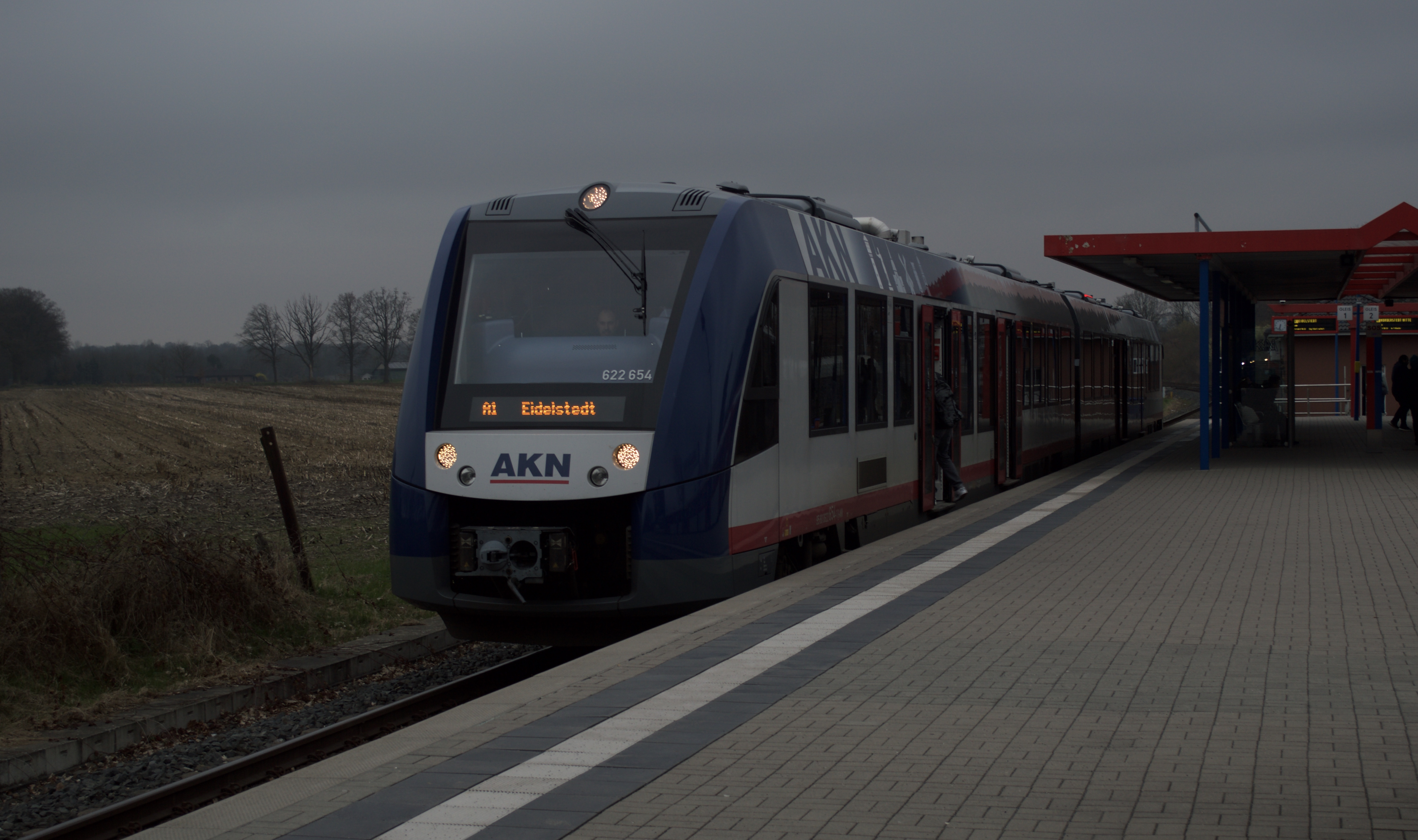 AKN class 622 2-coach DMU built by Alstom seen at Ulzburg Süd on 29 March 2017 on train AKN82472, 18:32 Ulzburg Süd to Hamburg-Eidelstedt. These LINT 54 railcar is classified VT2E, but in addition the usual 6-figure running number seen on German rail system.